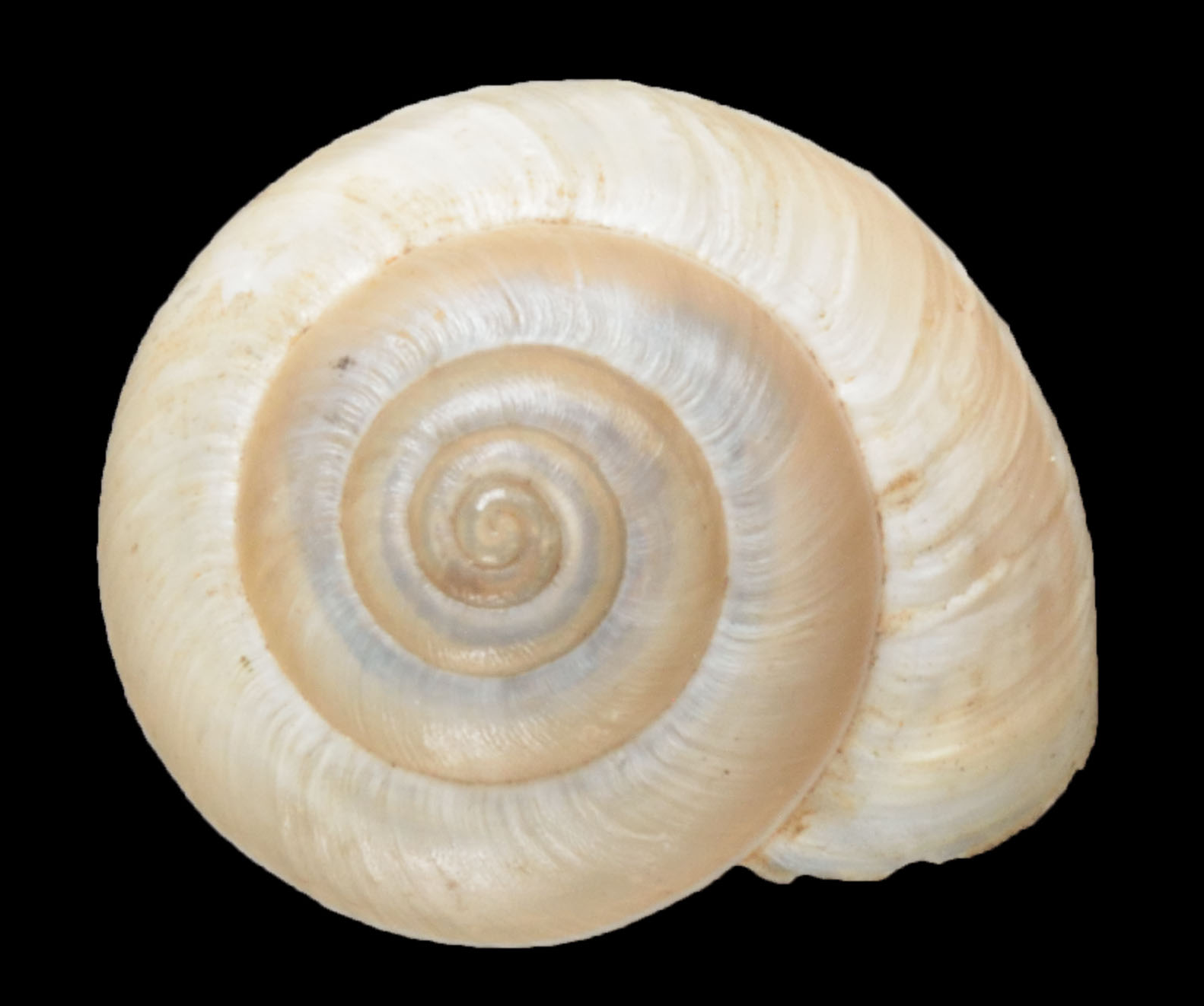 Photo of an apical view of a shell of Harmozica ravergiensis from a waste bank of Kalinin mine (Makiivka), Ukraine. Width of the shell is 12 mm.